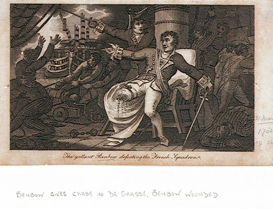 The gallant Benbow defeating the French Squadron; Benbow gives chase to de Grasse, Benbow wounded: St Martha (West Indies) 19-24 July 1702